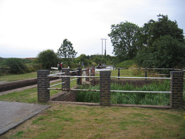 Side pond at Atherstone Locks